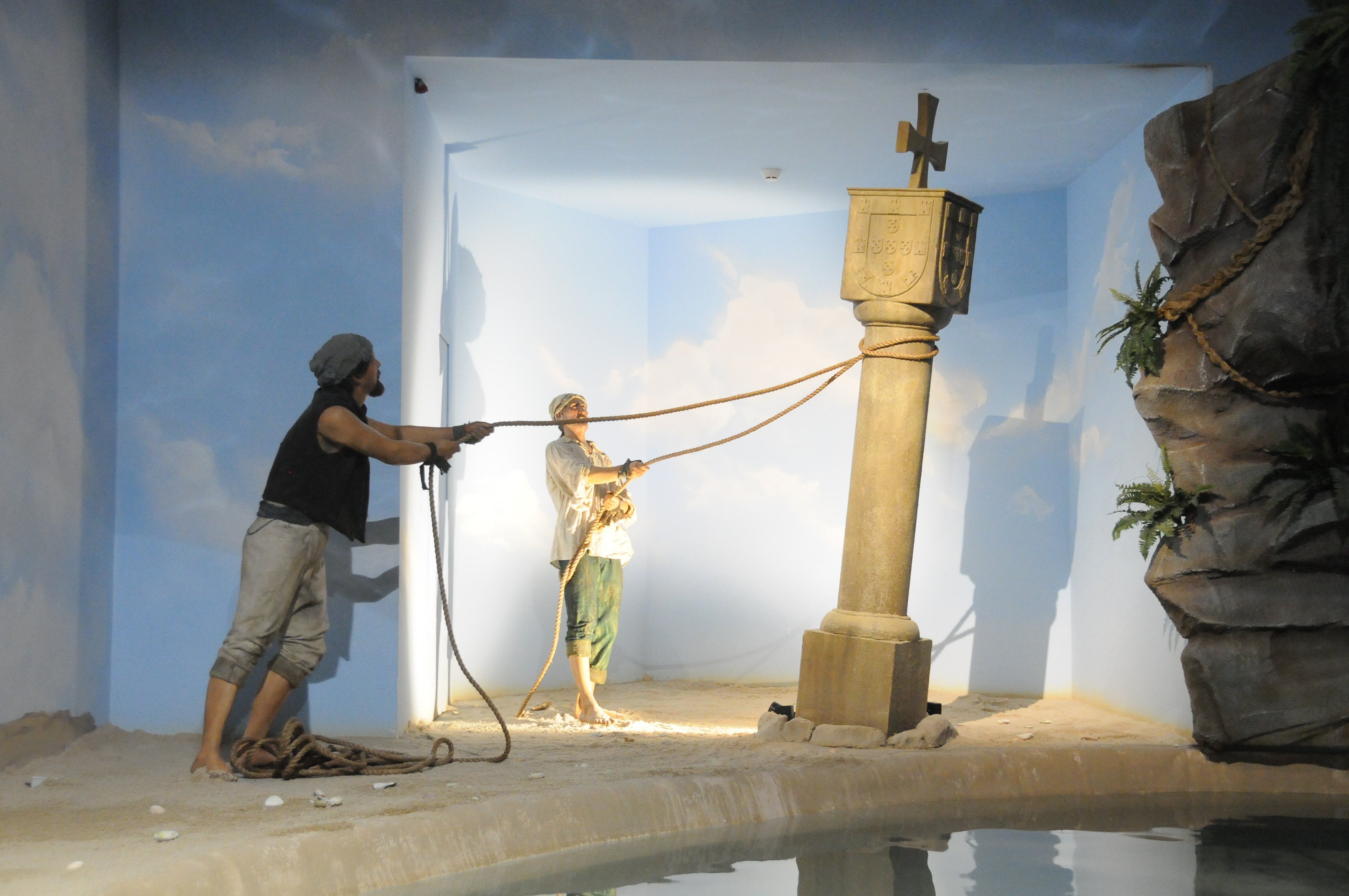 World of Discoveries in Porto Portugal